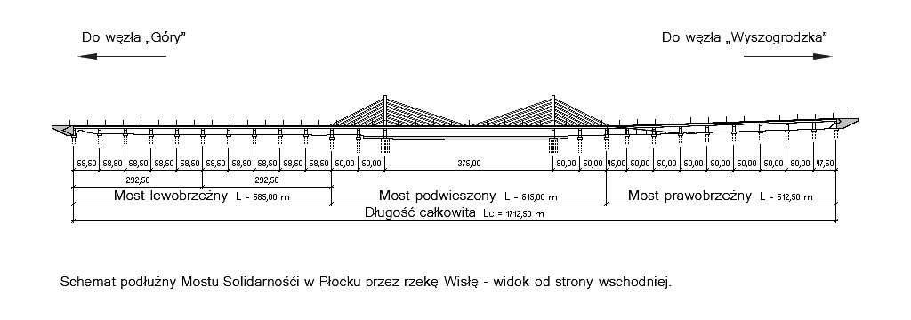 Scheme of the Solidarity Bridge in Płock, Poland